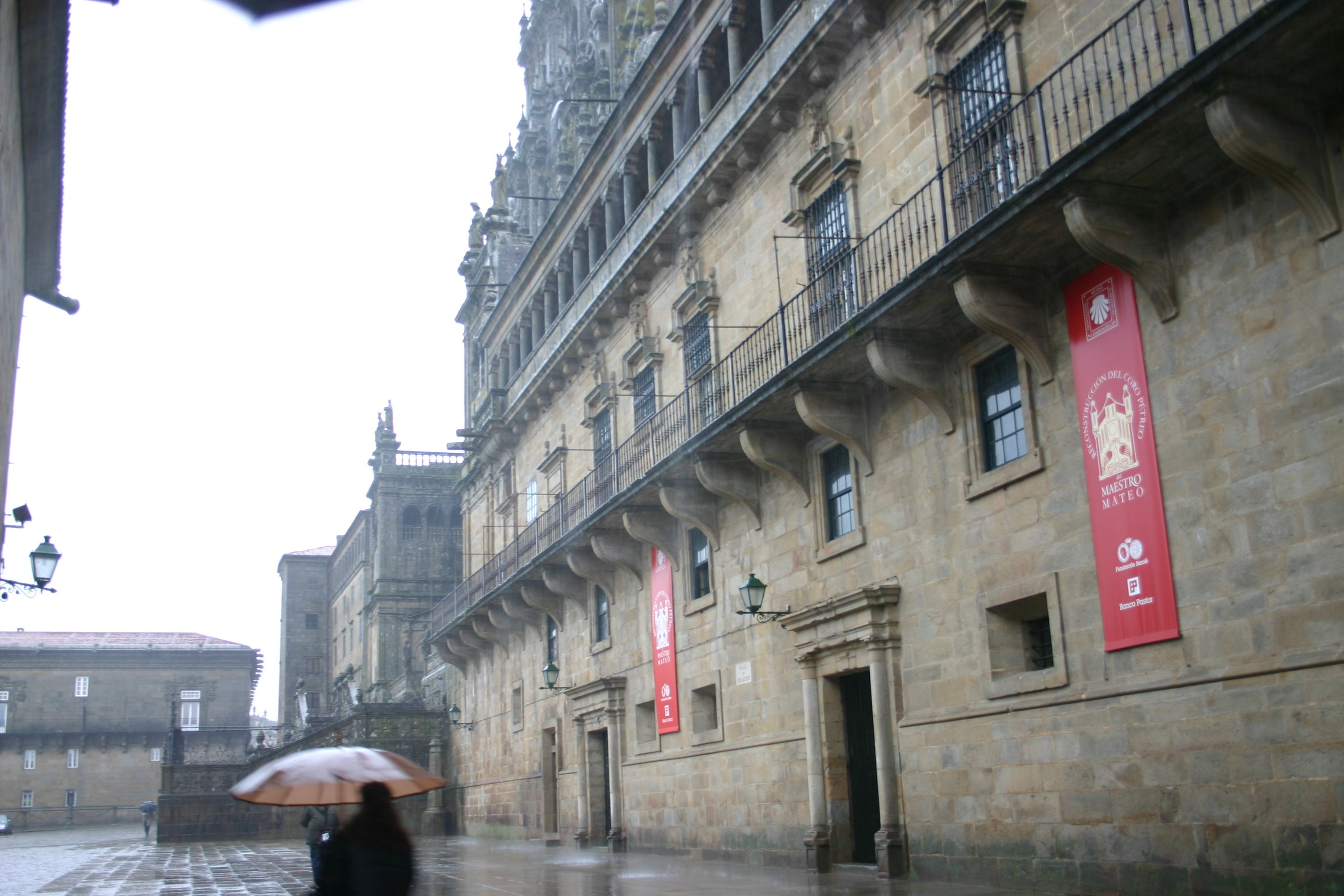 Obradoiro square, raining. Santiago de Compostela, Galicia (Spain). It can be seen a large quantity of rain water falling from the upper part sewers. The stone floor has also a different aspect where the water impacts it. In the upper part of the image appears a small part of my umbrella with a small black shadow.